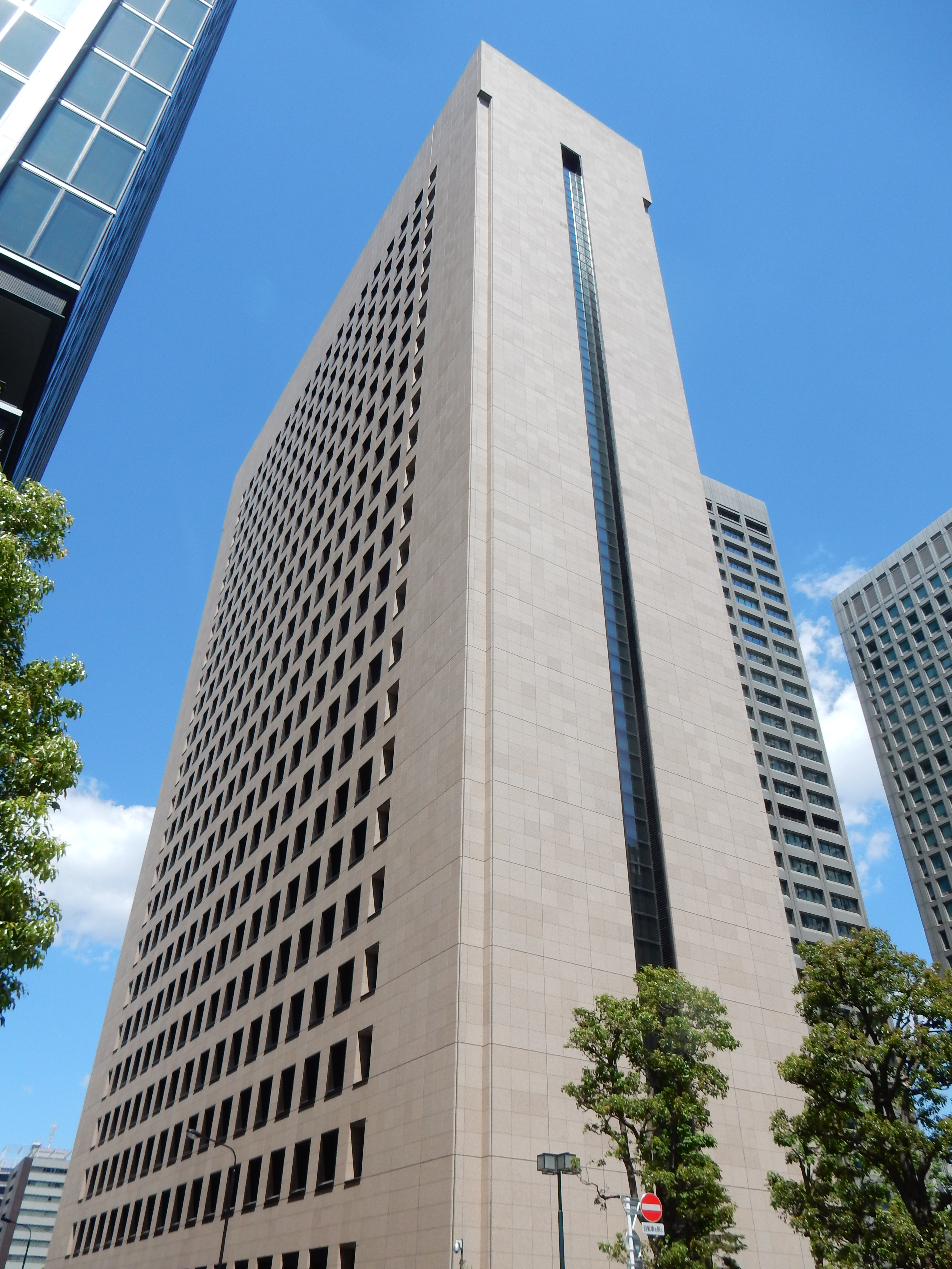 Hibiya Central Building (日比谷セントラルビル), located at 2-2-3 Nishi-Shinbashi, Minato, Tokyo, Japan